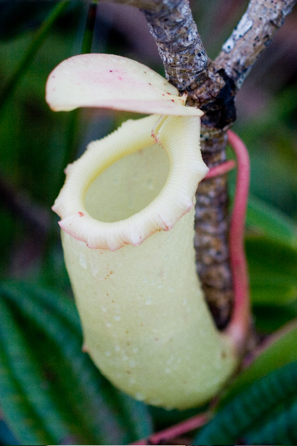 Nepenthes sibuyanensis photographed on the Knife Edge ridge of Mount Guiting-Guiting, Sibuyan (Alastair Robinson, June 2007) - a relatively rare upper pitcher.